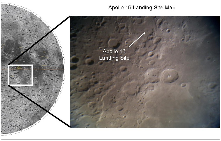 Apollo 16's landing site map